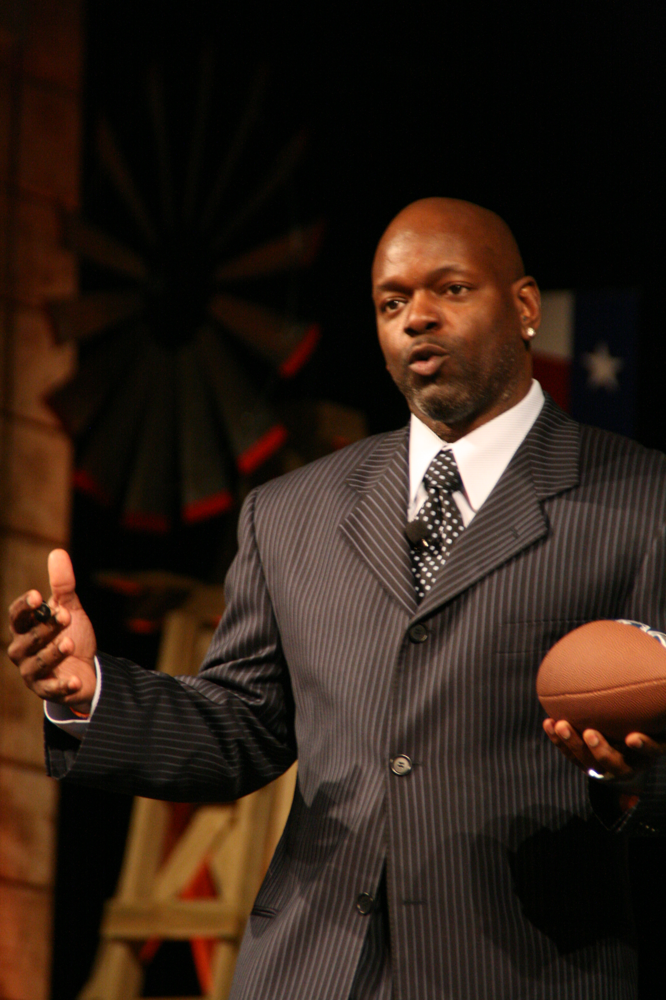 Emmitt Smith.